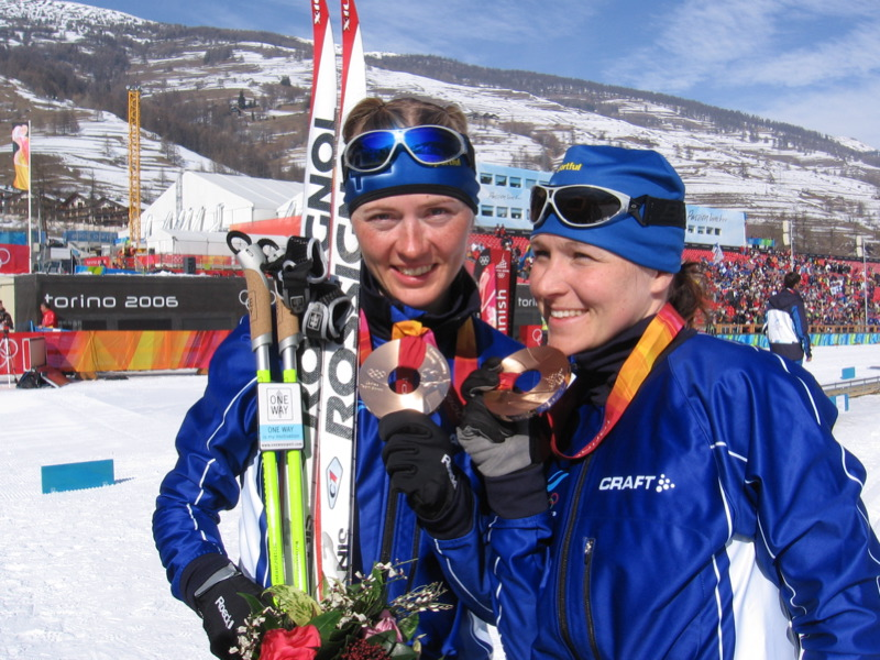 Virpi Kuitunen and Aino-Kaisa Saarinen, Winter Olympics 2006.